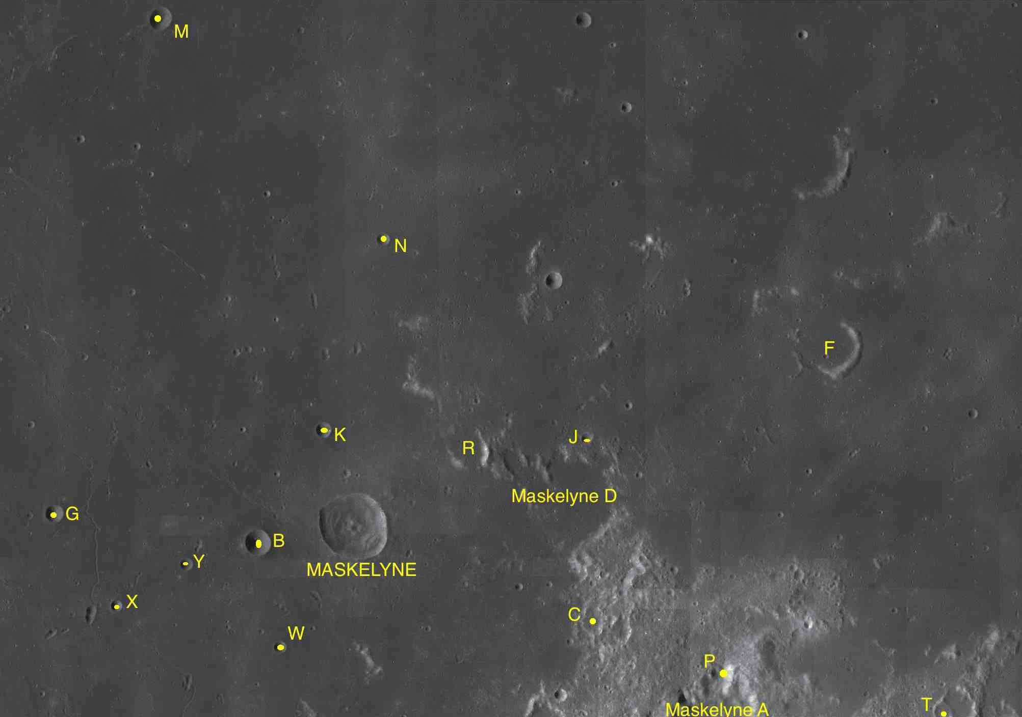 Parts of the charts LAC-60, LAC-61 used for the presentation